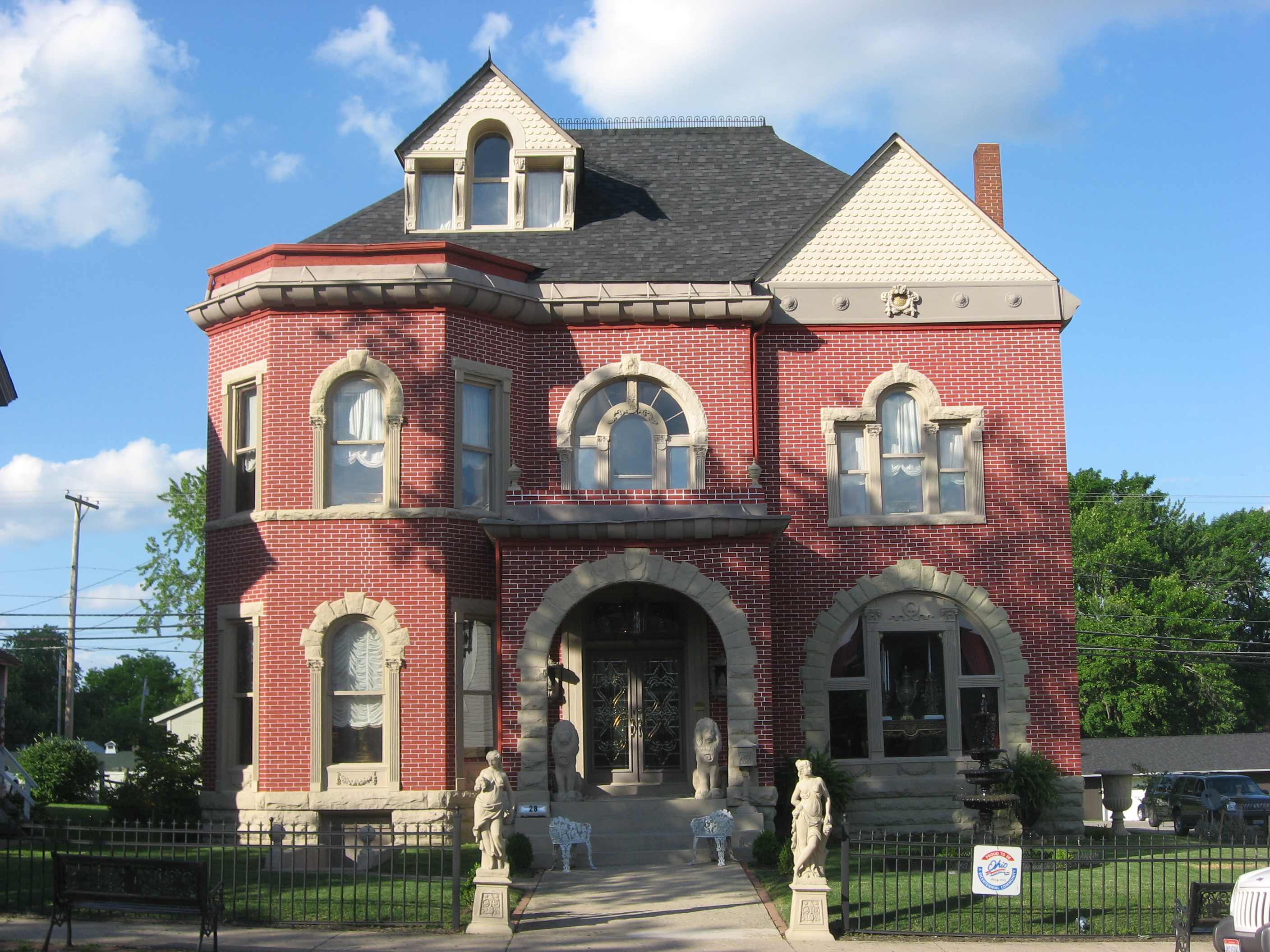 Front of the Dr. Nincehelser House, located at 28 N. Main Street (State Route 29) in Mechanicsburg, Ohio, United States. Built in 1893, it is listed on the National Register of Historic Places.